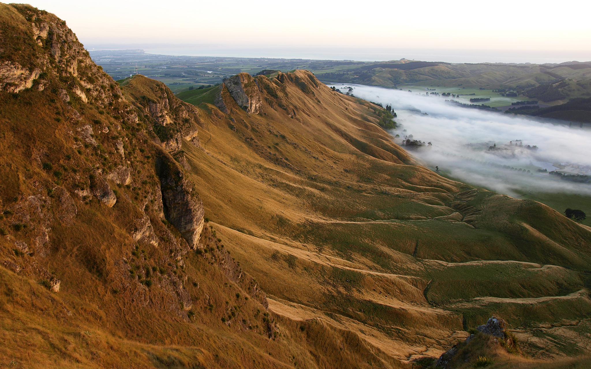 Te Mata Range, Havelock North, Hastings District, Hawke's Bay Region, New Zealand.